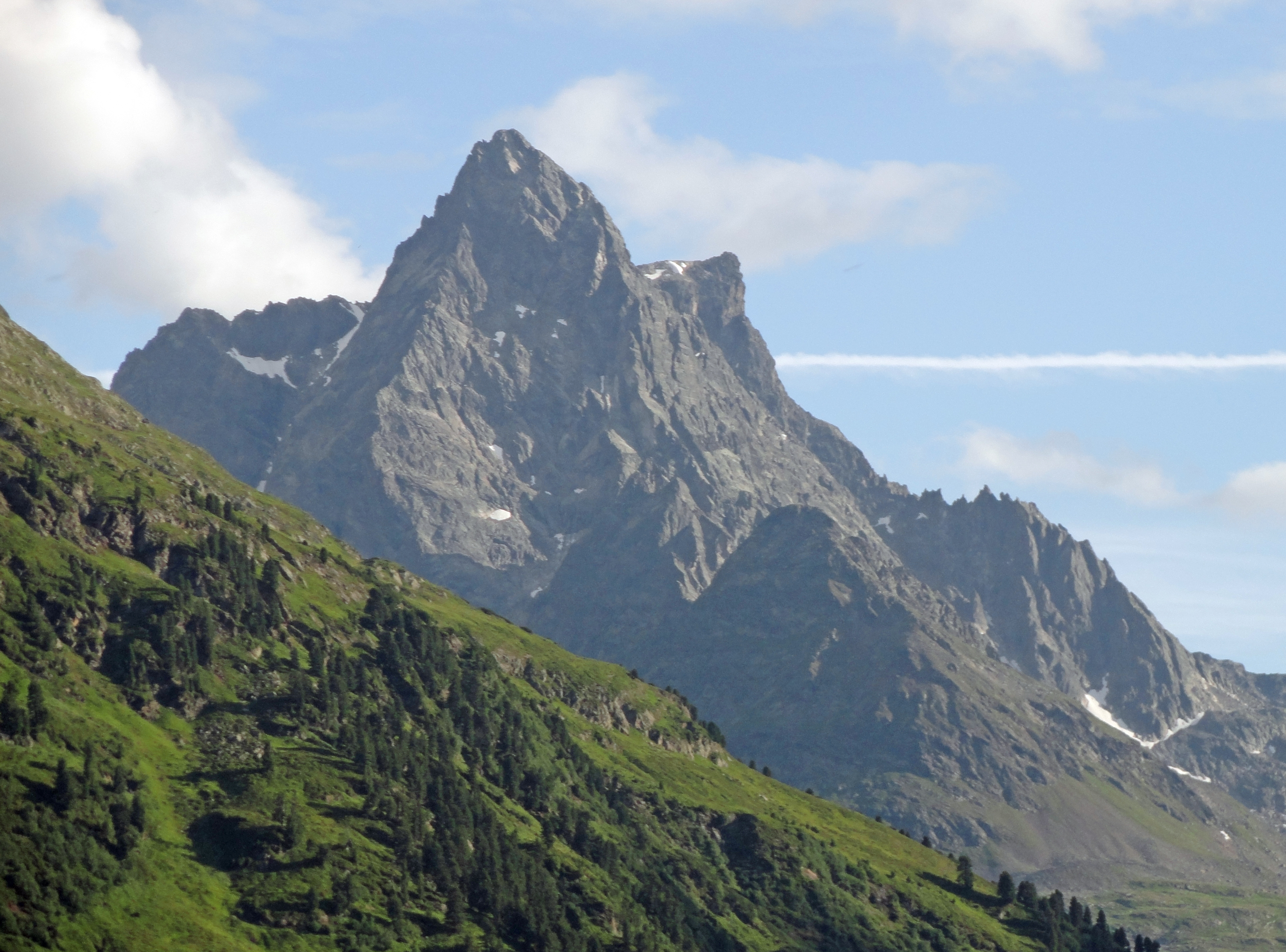 Patteriol from NE